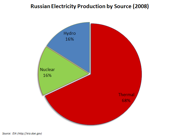 Russian electricity production by source (Data source: [1])